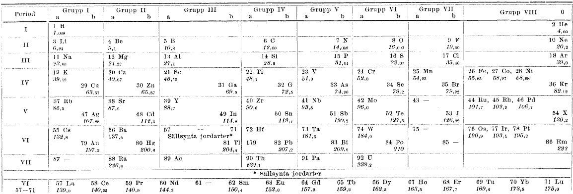 The Periodic table in 1924